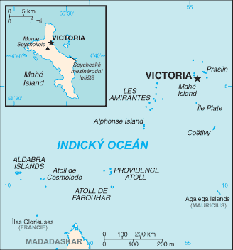 Map of Seychelles with Czech description.